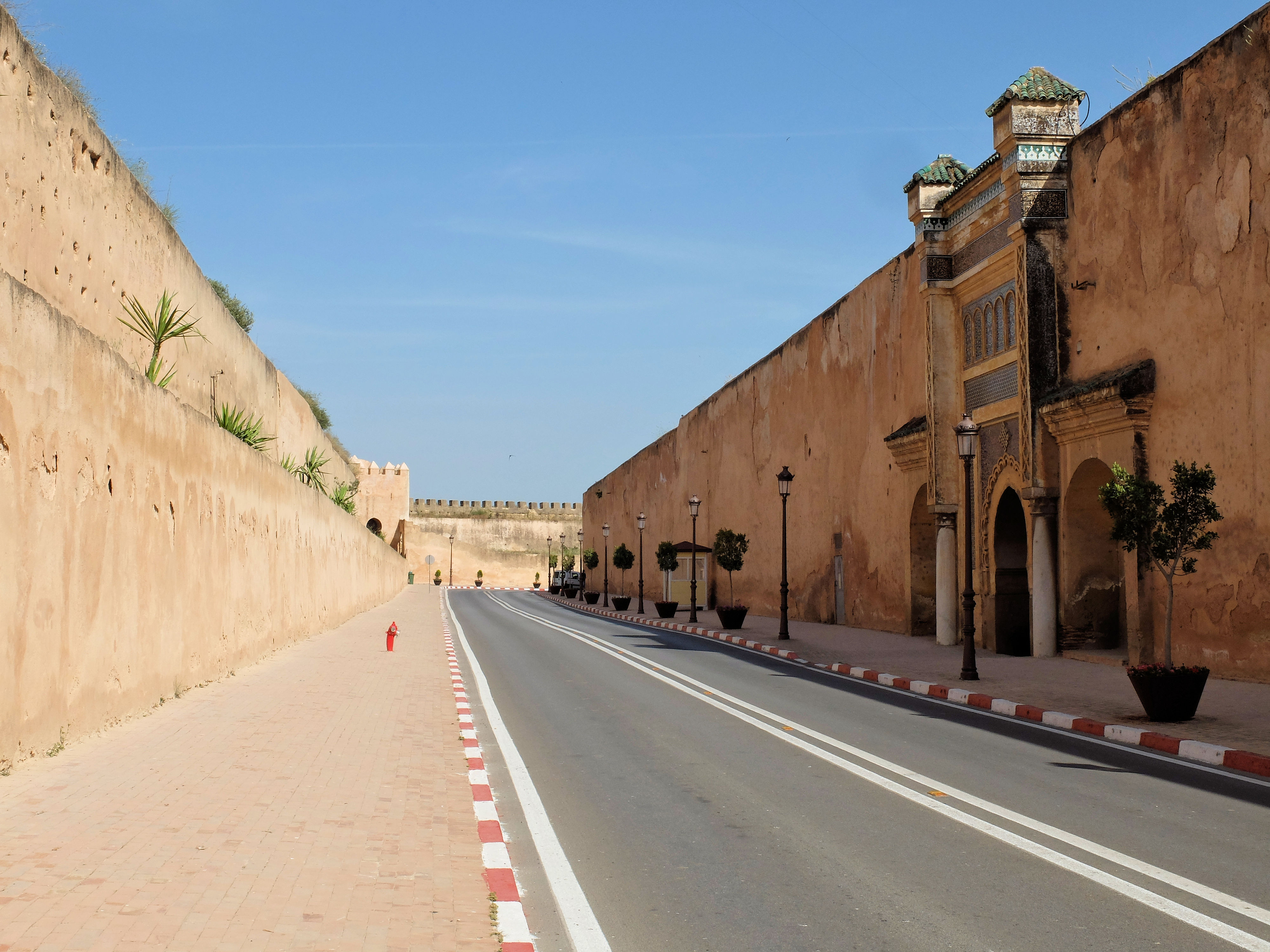 The "asarrag" or avenue on the north side of the Dar al-Makhzen, Meknes